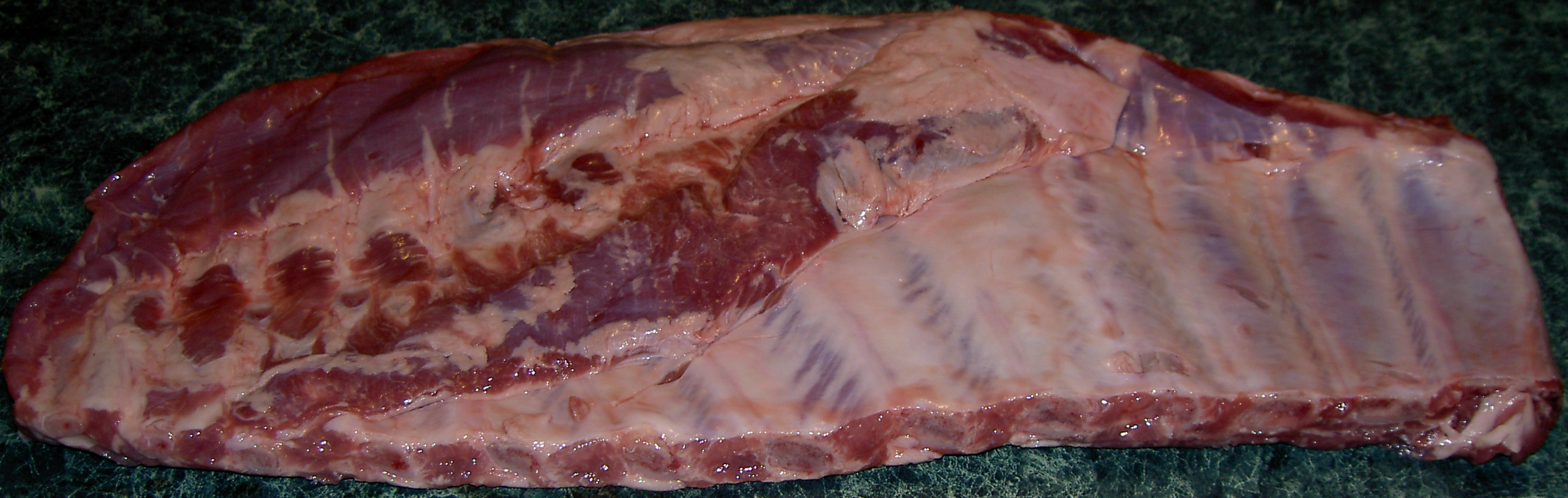 A four-pound rack of uncooked pork spareribs sitting on a counter. Should be the "inside" portion, or the side that would be facing the lung. Date discrepancy on EXIF is because the battery in my camera doesn't hold much of a charge and thus the date wasn't set.